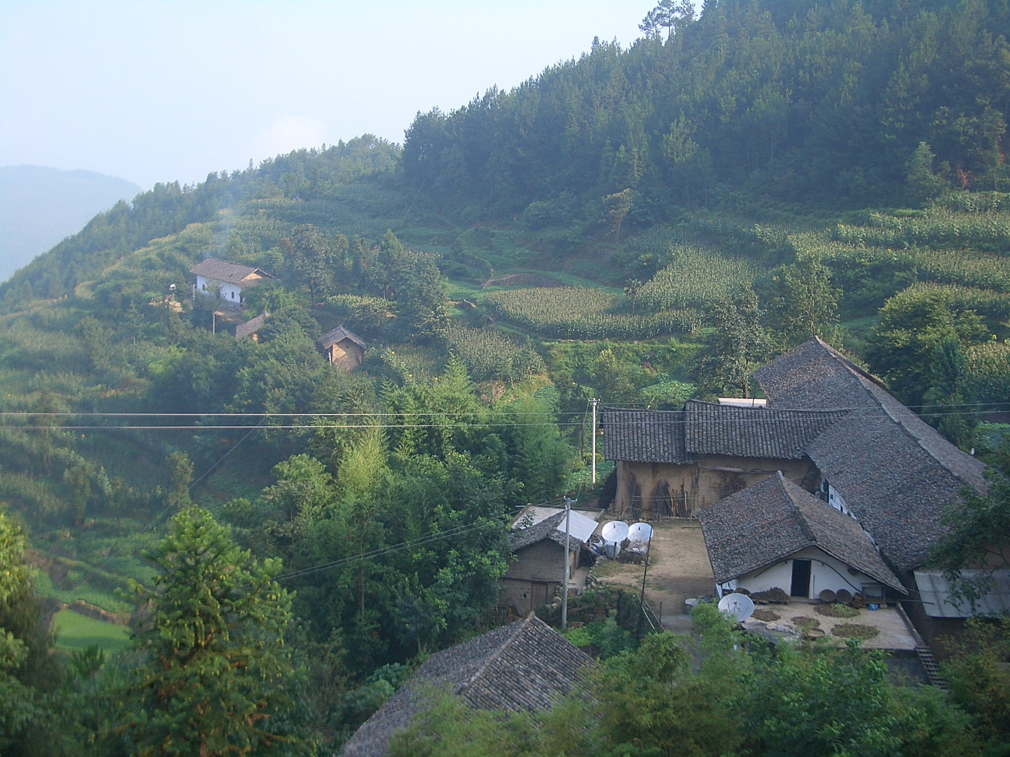 Rural landscape near G209 in Xiqiuwan Township, Badong County, Hubei, near Xingshan County border.